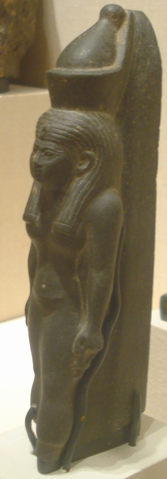 Statuette of Mut. Schist. Late Period, Dynasty XXVI, c. 664-525.